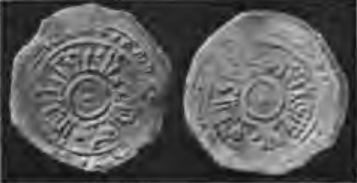 Image from Rivista italiana di numismatica 1891 (p. 144): a tarì from Amalfi